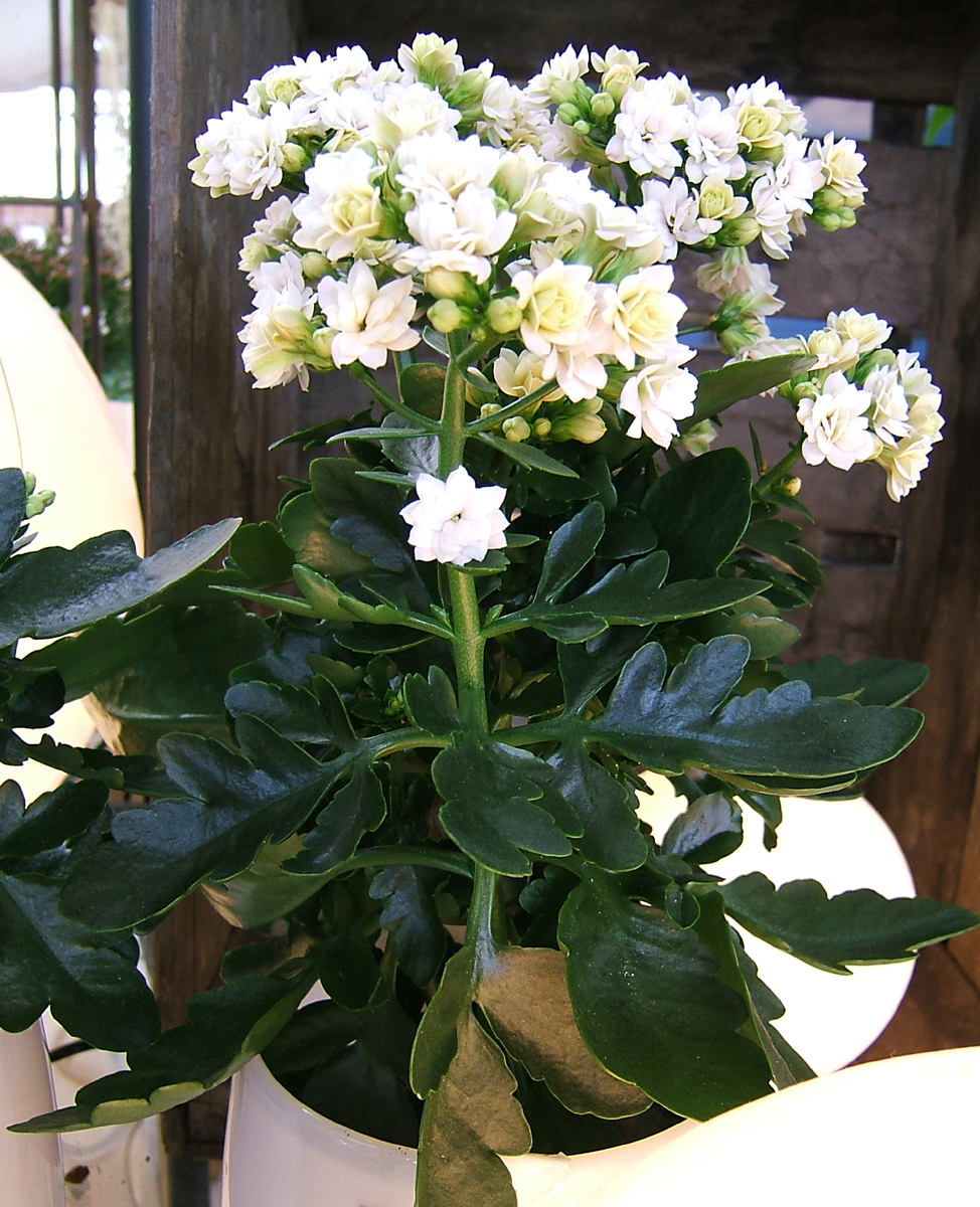 Flaming Katy